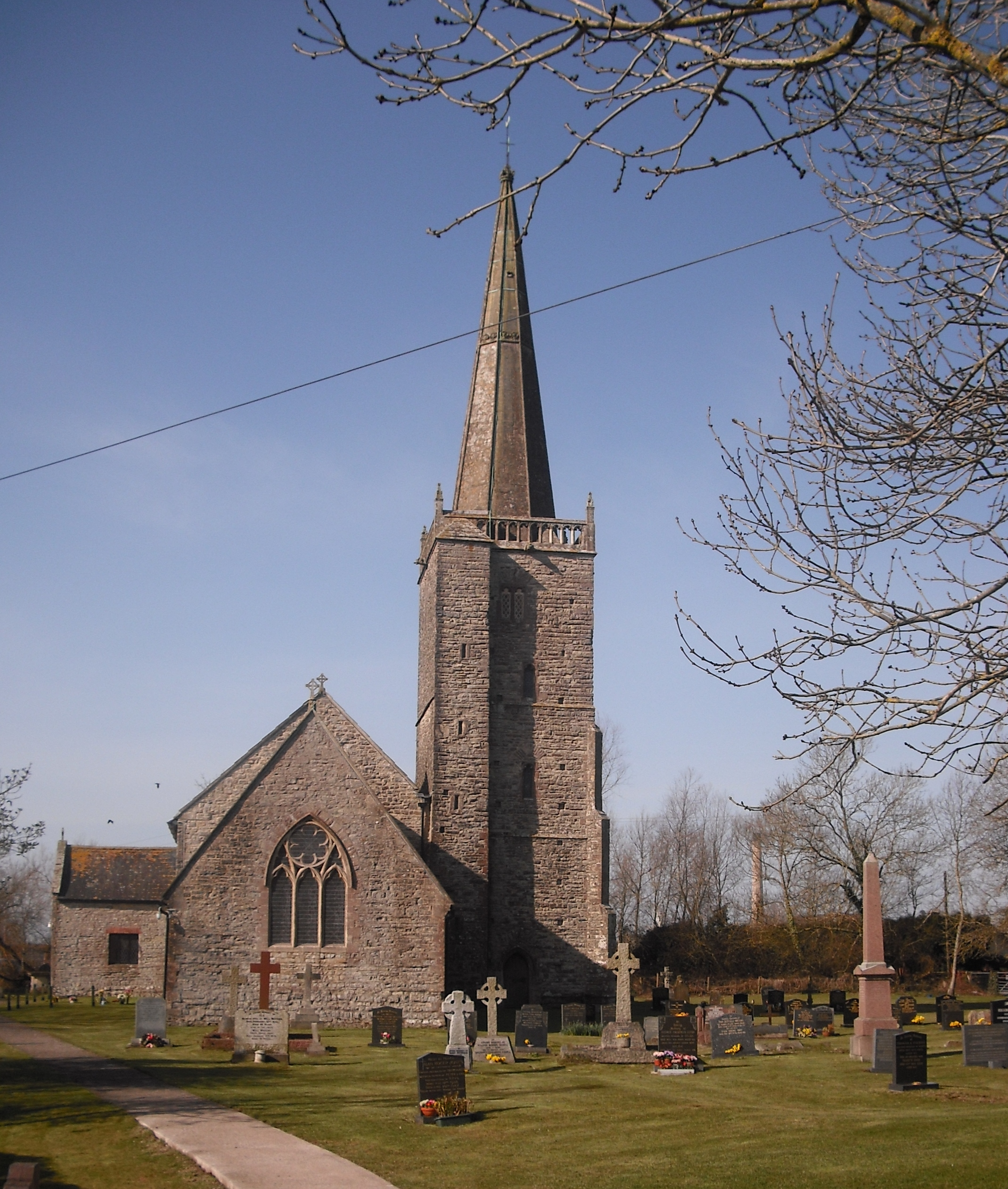 St Mary's Church, Nash, Newport, Monmouthshire, 21/03/10